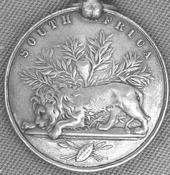 South Africa Medal 1877-1879 reverse